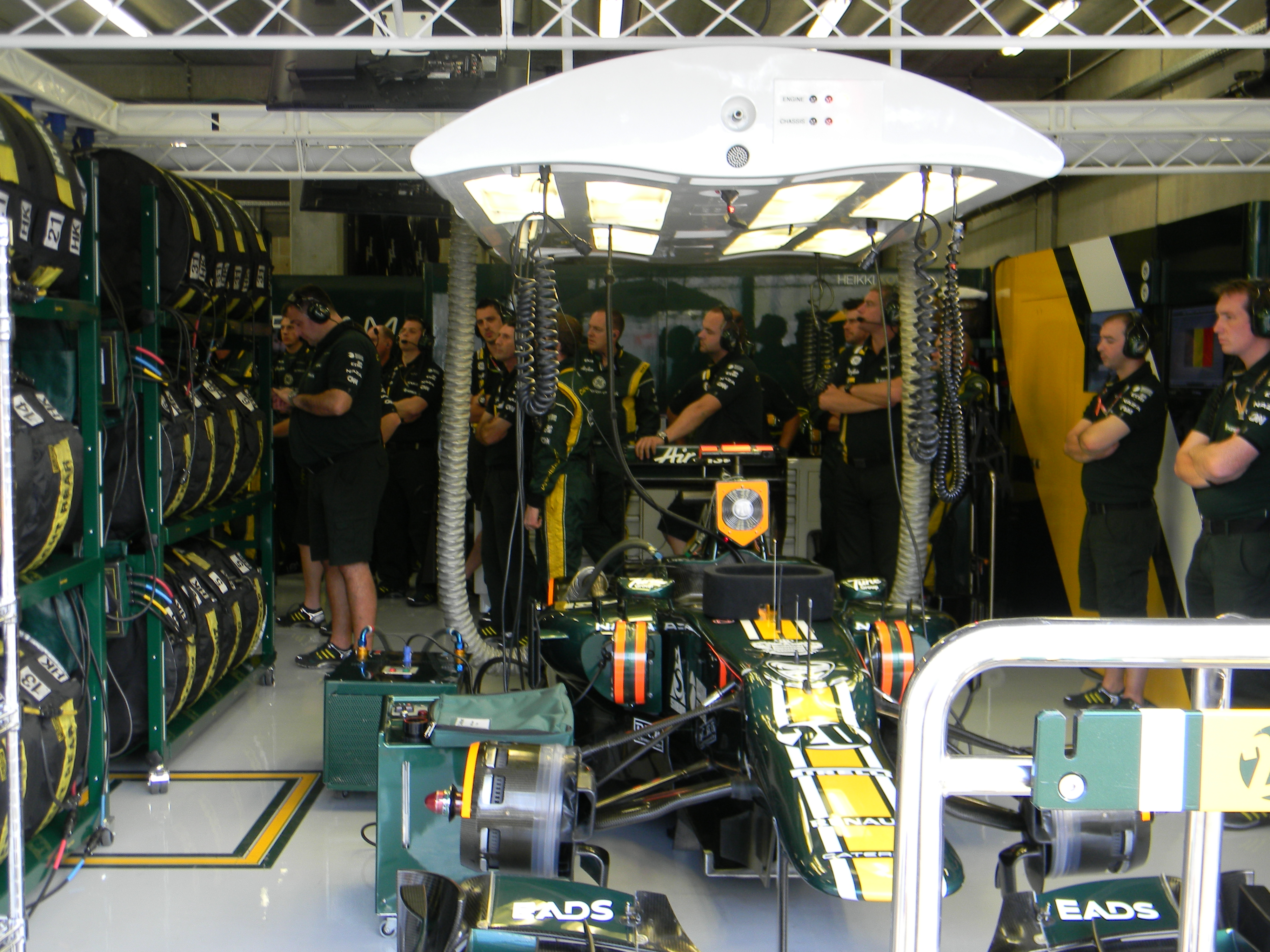 Belgian F1 Grand Prix 2012